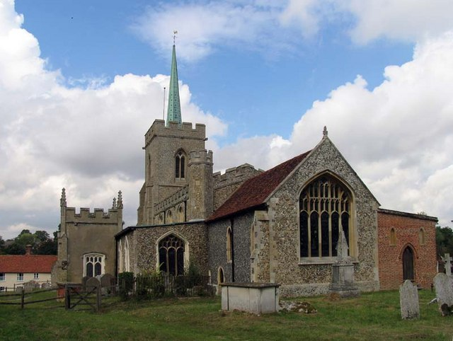 St Mary, Braughing, Herts